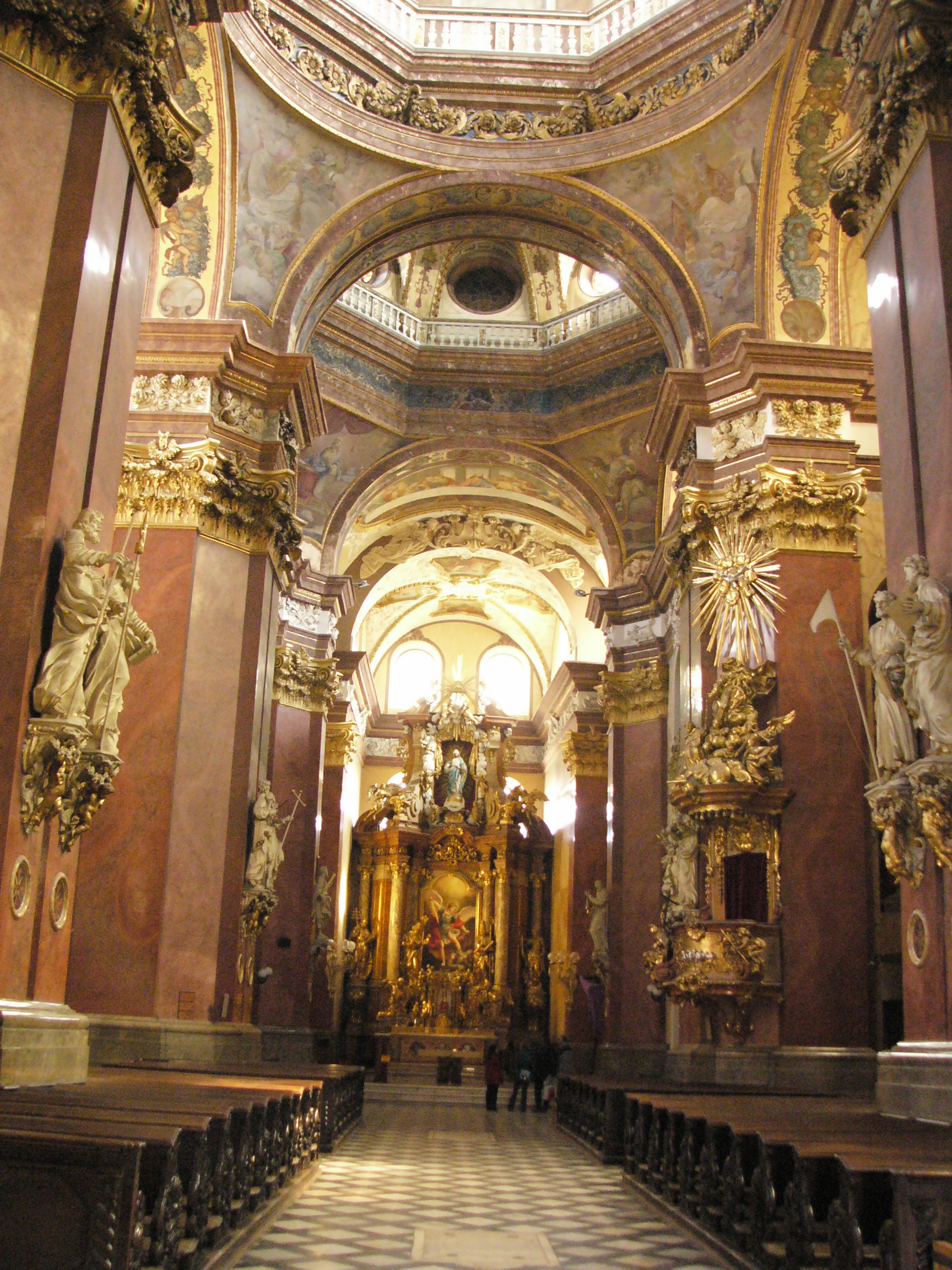 Church of saint Michal in Olomouc (Czech Republic).